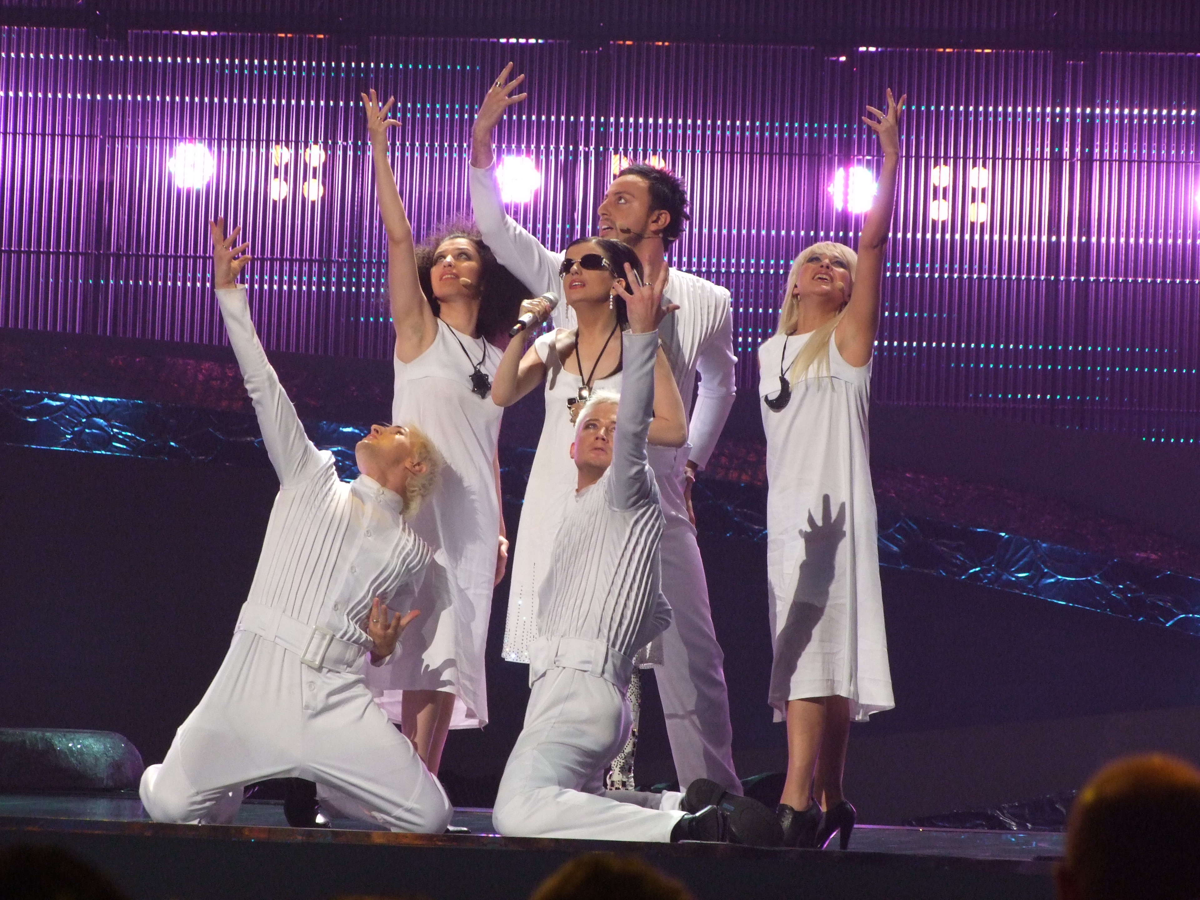 Singer Diana Gurtskaya of Georgia at the final of the 2008 Eurovision Song Contest in Belgrade, Serbia.